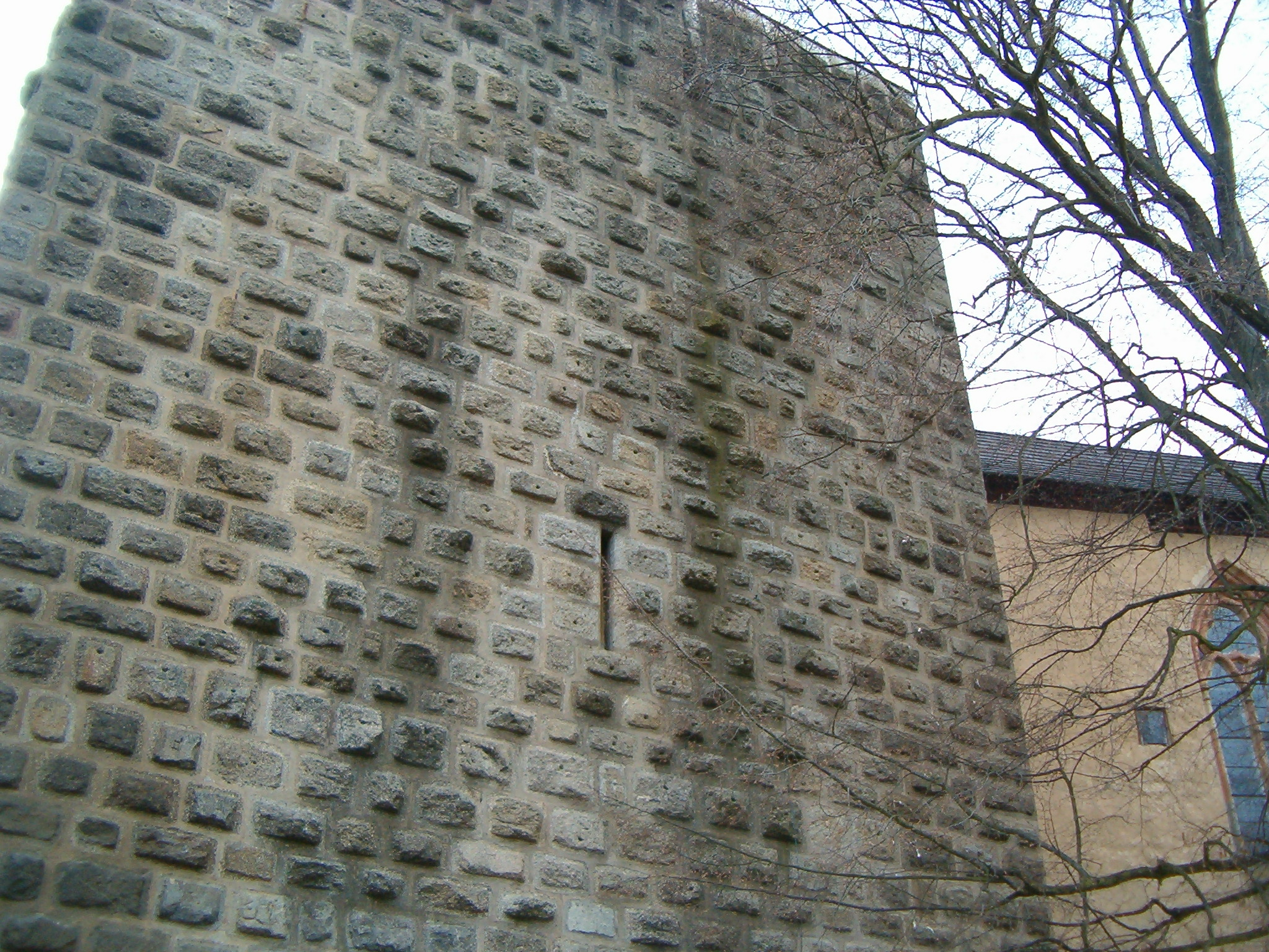 Castle Zvíkov, South Bohemia region